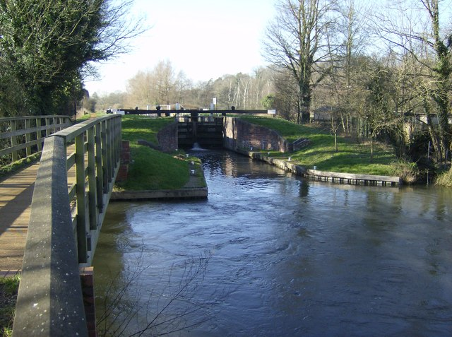 Woolhampton Lock, on the River Kennet Navigation section of the Kennet and Avon Canal. The River Kennet enters under the bridge to the left, resulting in tricky navigation conditions for boats entering or leaving the lock. For more information see the Wikipedia article Woolhampton Lock.